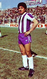 Luis Galván as a Talleres player in the 1970s.